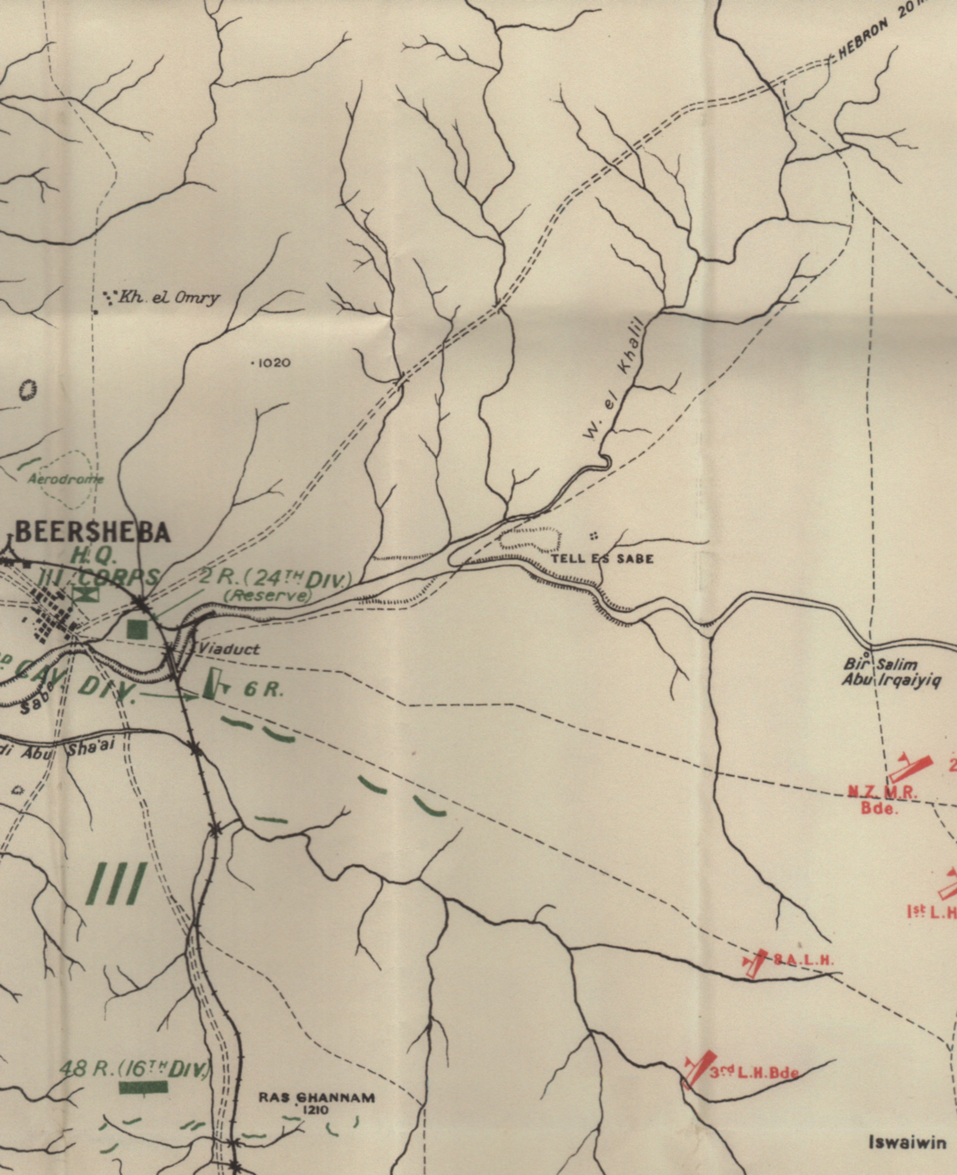 Falls Map 5 Battle of Beersheba detail